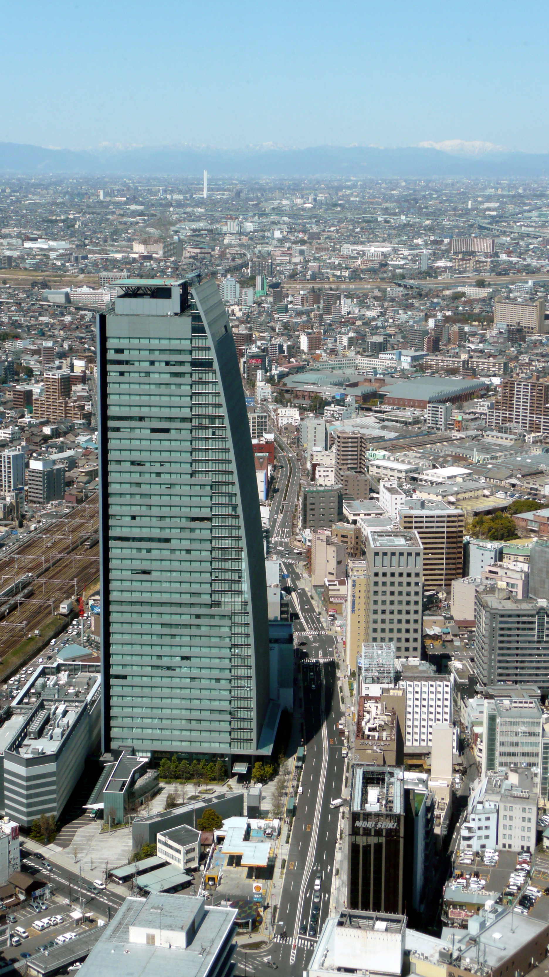 Nagoya Lucent Tower